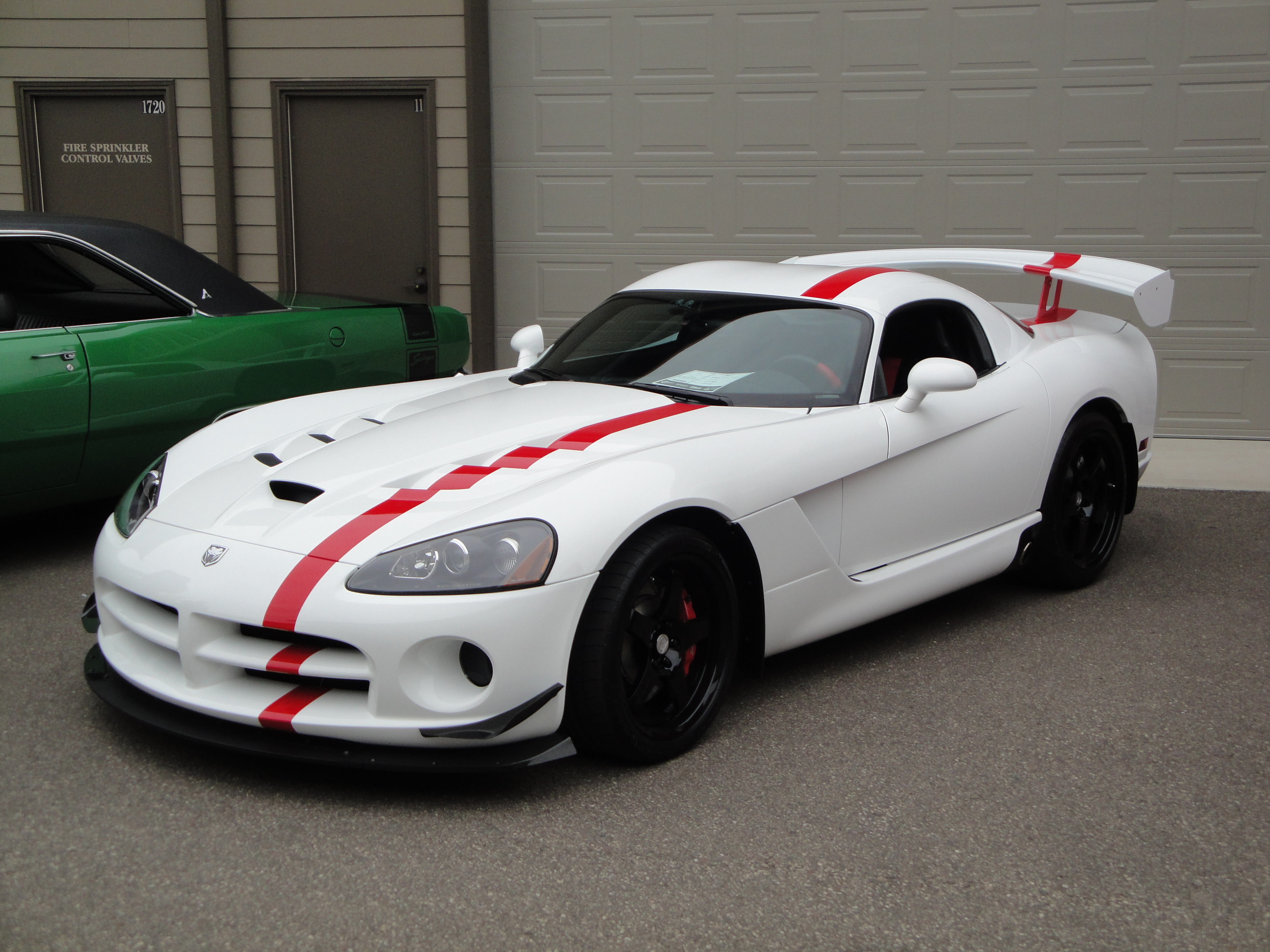 AutoMotorPlex Top 21 All Mopars Car Show hosted by MnChallengers.